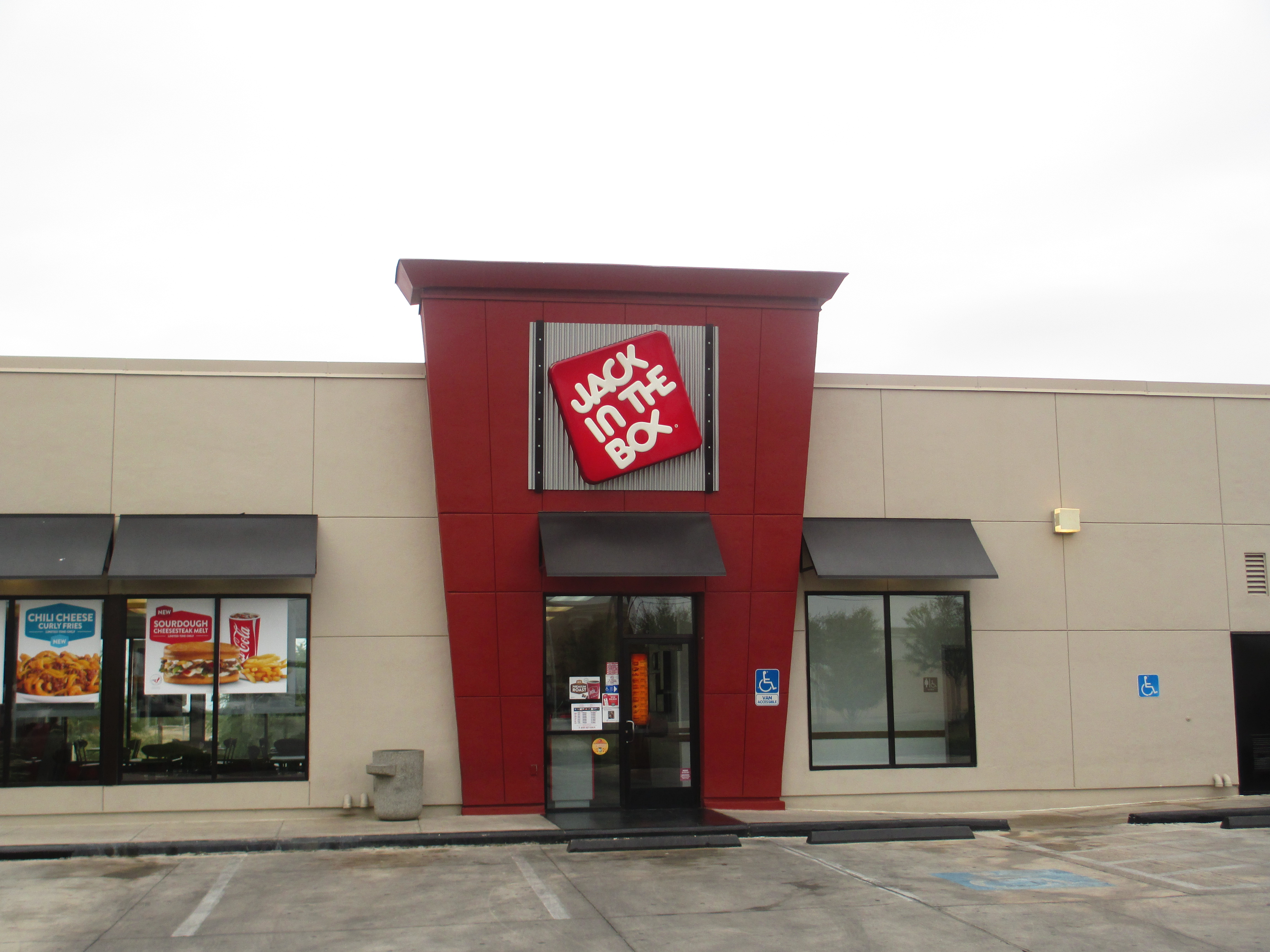 I took photo of Jack in the Box on the South Zapata Highway in Laredo, TX, with Canon camera.